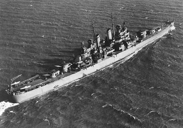 The U.S. Navy light cruiser USS Montpelier (CL-57) photographed by the Philadelphia Navy Yard, Pennsylvania (USA), probably in the Delaware River or Delaware Bay on 12 December 1942. Note the seaplane floats on her catapults.